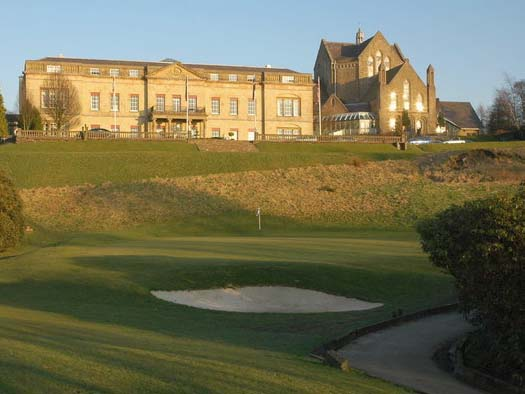 Shrigley Hall Hotel, Pott Shrigley, Cheshire, seen from the west. Built in 1825 as a country house. On the right is the leisure complex, which was added in 1938 as a chapel when the house was a college of Salesian missionaries.